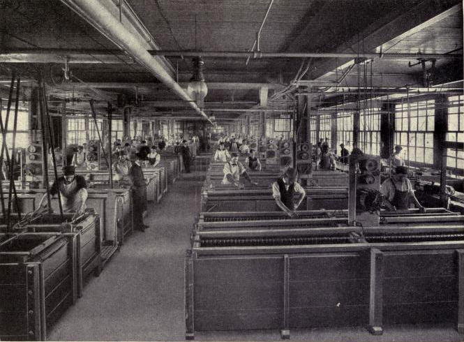 Electroplating plant.